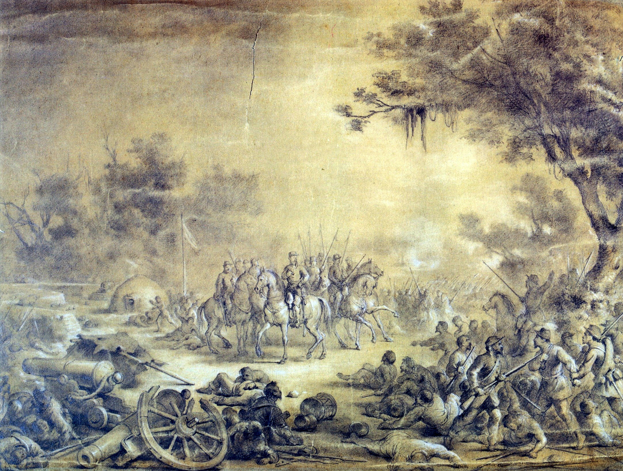 The Count of Porto Alegre leads the brazilian forces in the Battle of Curuzu, 1866